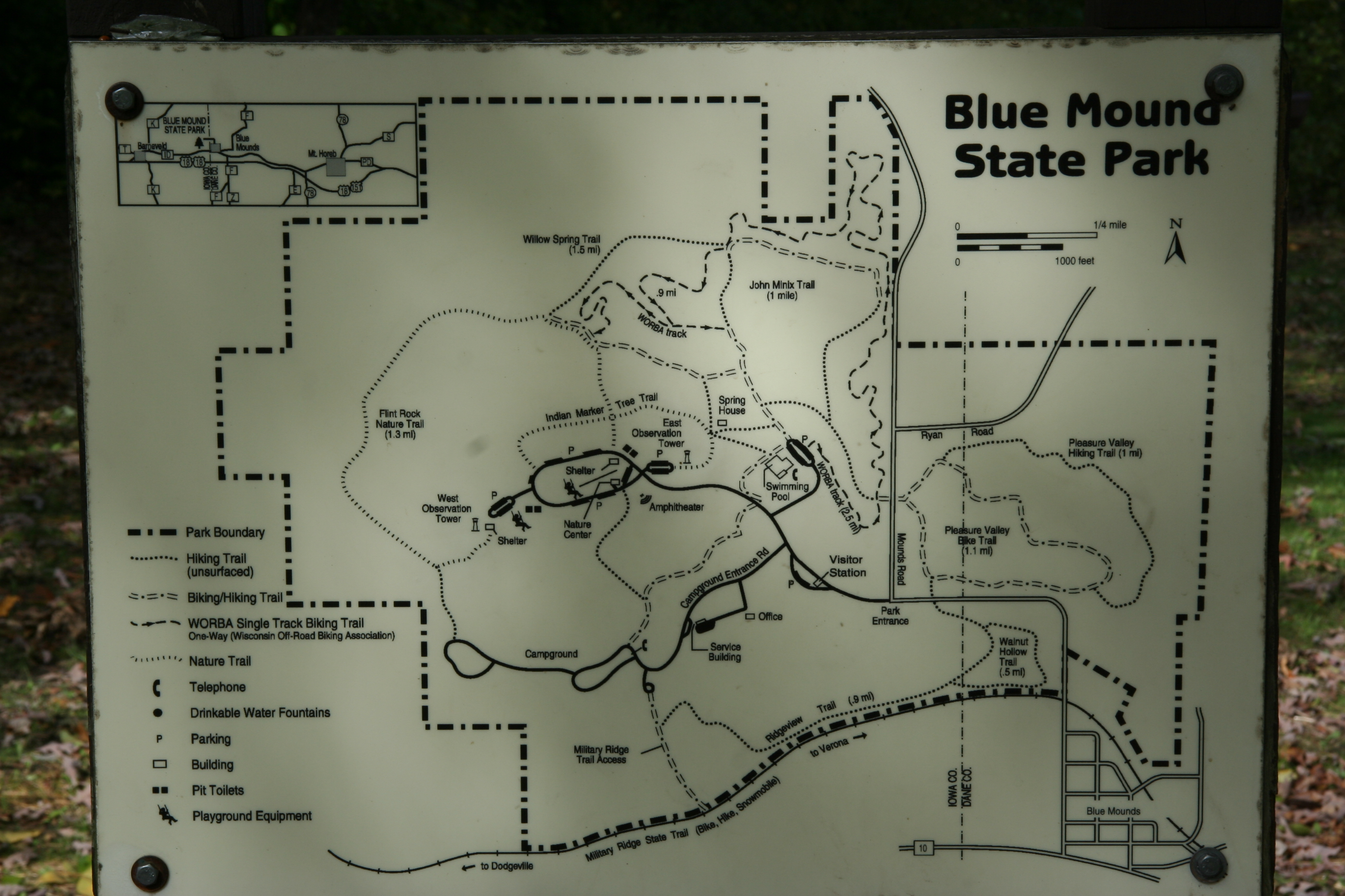 Hiking on a cold day at Blue Mound State Park